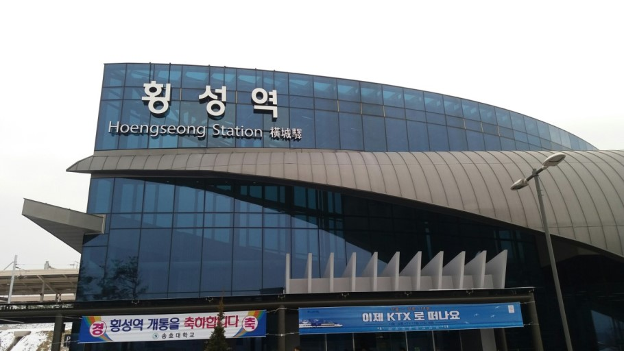 A scenery of Hoengseong Station Building